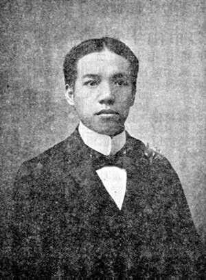 Liang Qichao. Bân-lâm-gú: Niû Khé-tshiau.